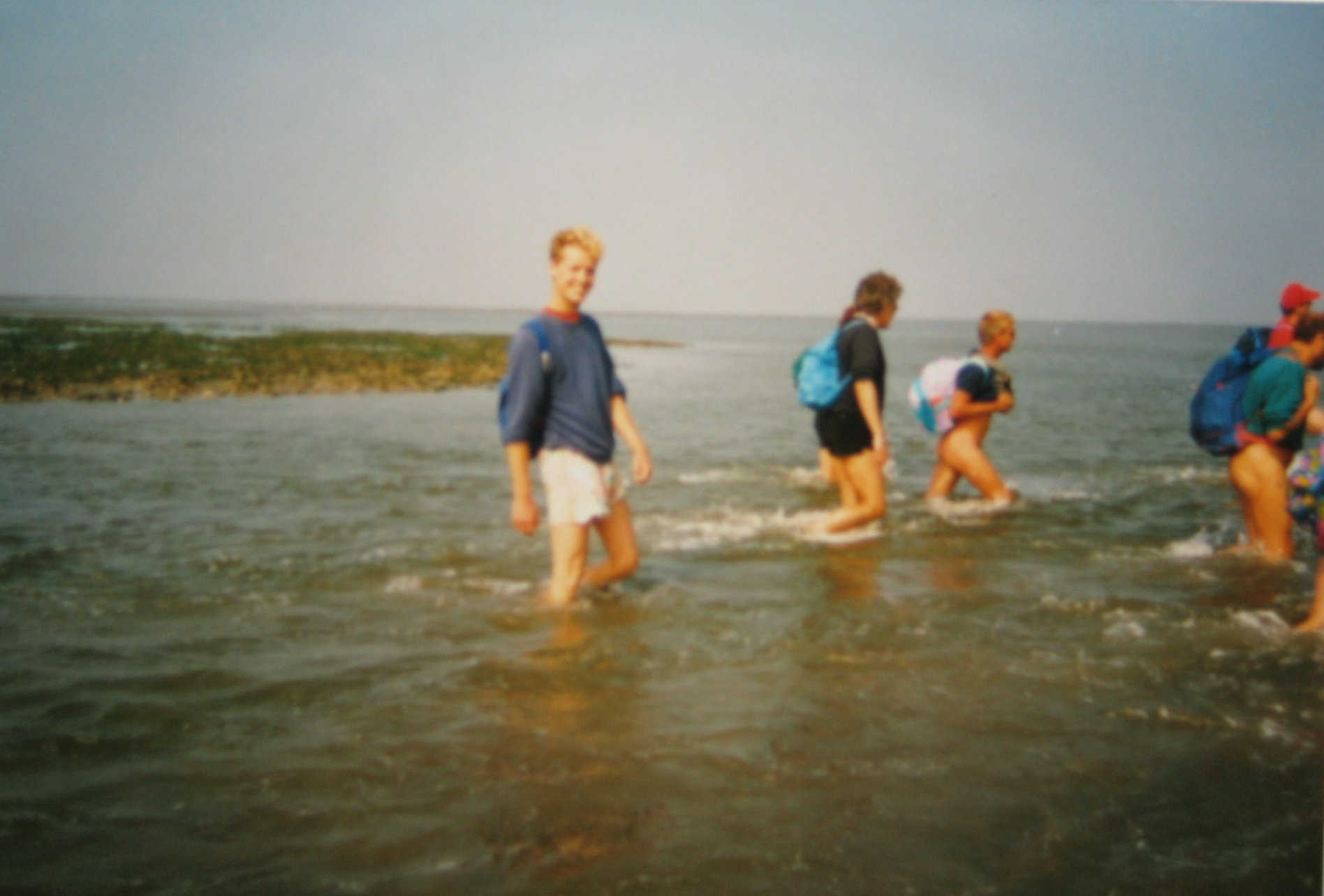 Wadlopen 333